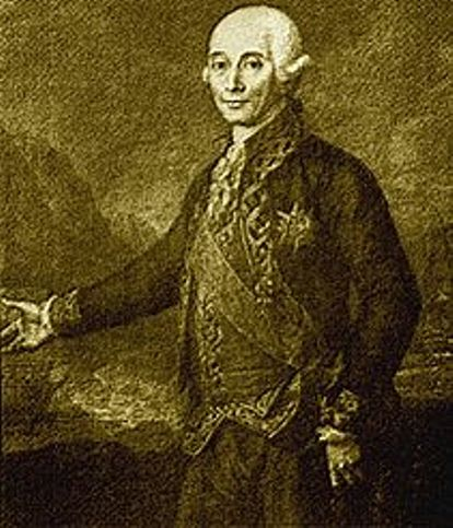 John Acton, 6. baronet Acton un politicone napolitano